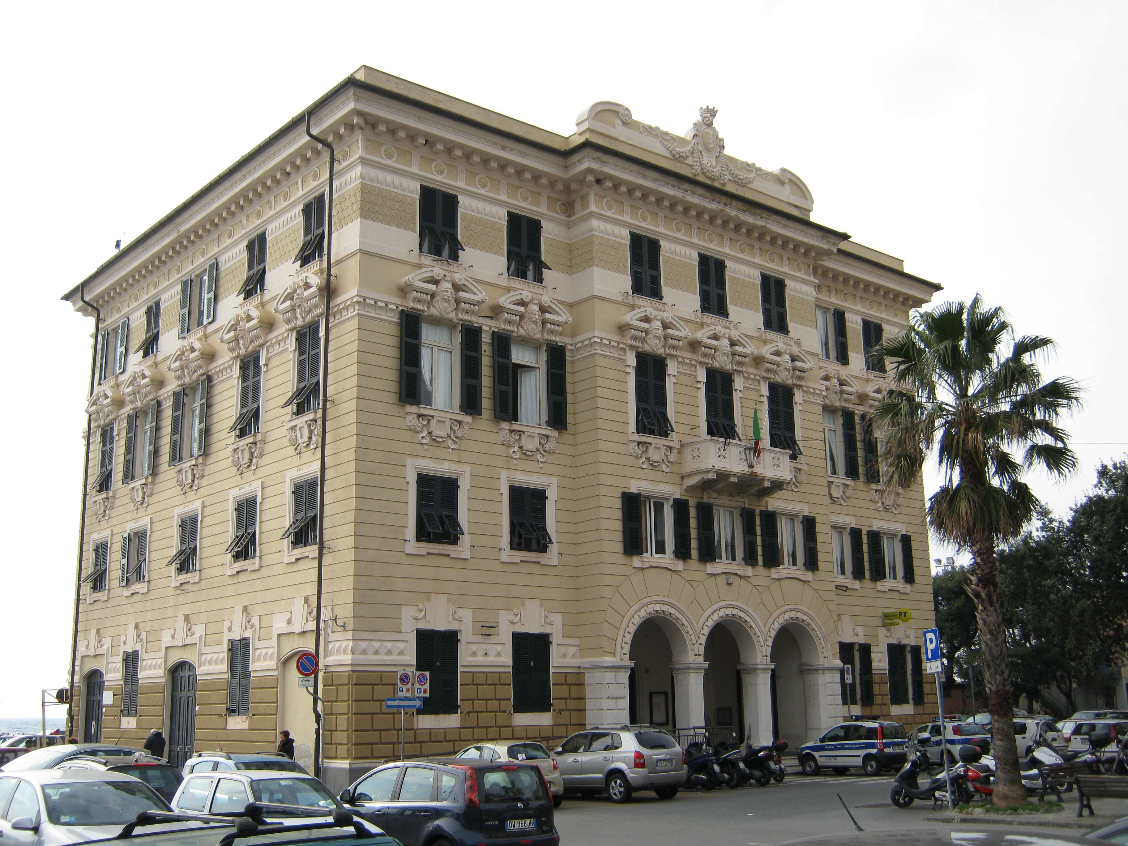 Former city hall ("municipio") of Voltri. Still named "municipio".